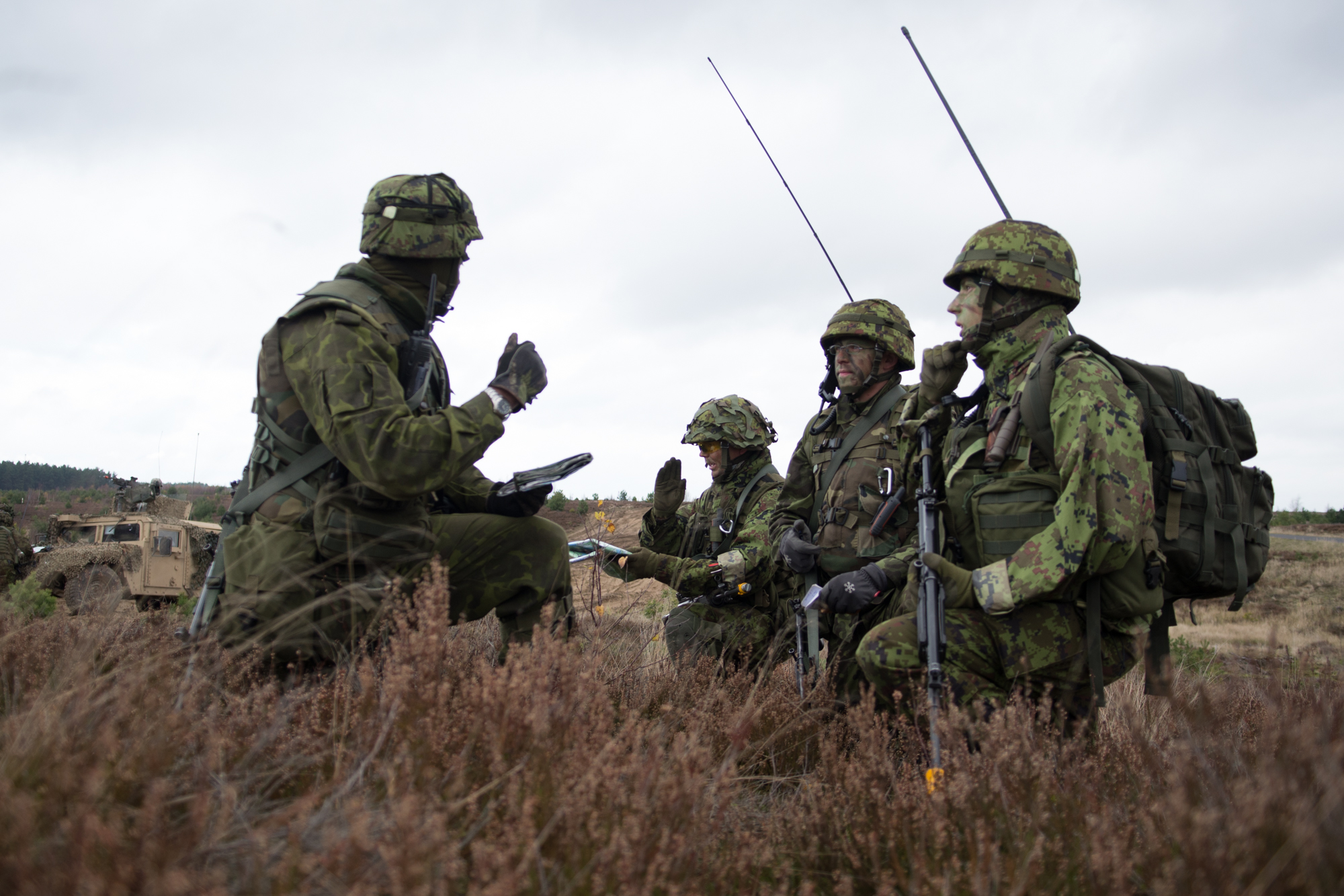 Steadfast Jazz 2013 Estionian soldier : during the briefing between american and estonian chief platoon, the radio are tacking orders